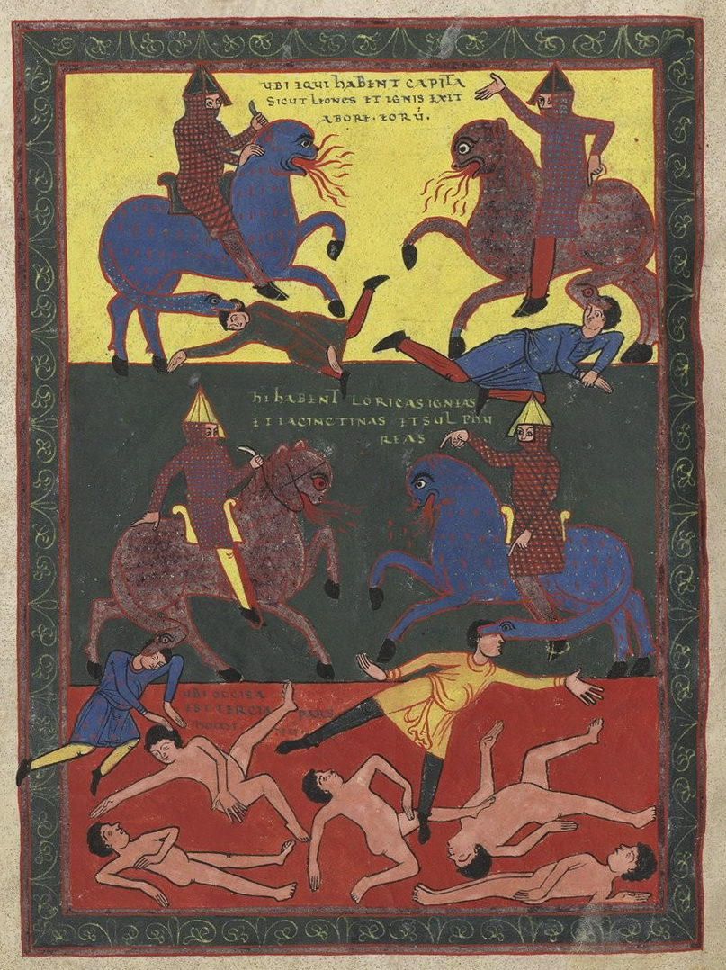 The Saint-Sever Beatus, also known as the Apocalypse of Saint-Sever, (Paris, Bibliothèque Nationale, MS lat. 8878) is a French Romanesque illuminated Apocalypse manuscript from the 11th Century. Folio 148v of the Apocalypse of St. Sever (St. Sever Beatus), The horses with heads of lions.